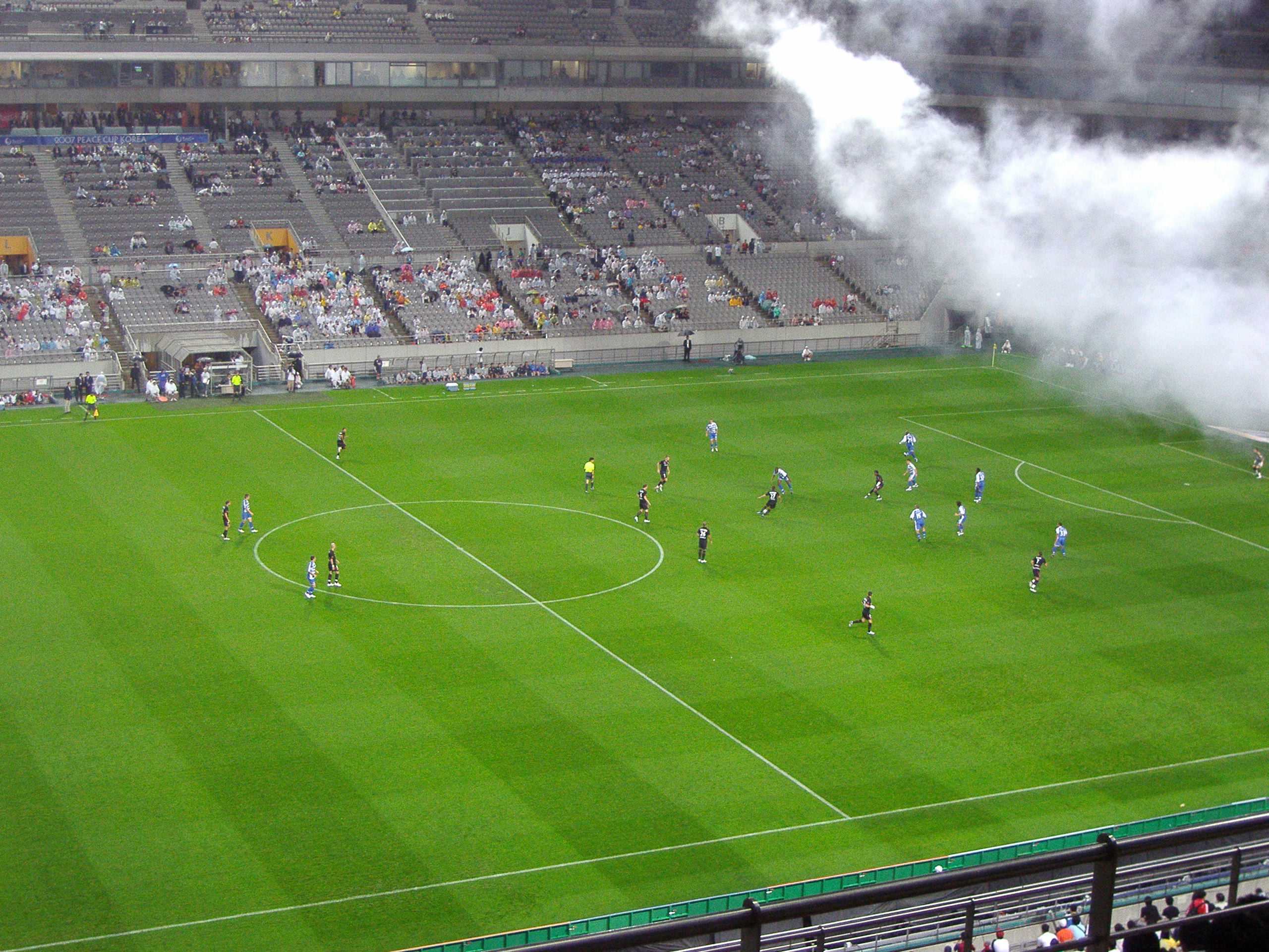 Peace Cup 2007 Olympique Lyonnais vs Reading F.C. (2007-07-16, Seoul World Cup Stadium)